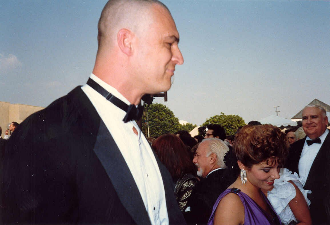 Richard Moll on the red carpet at the 39th Annual Emmy Awards 9/20/87